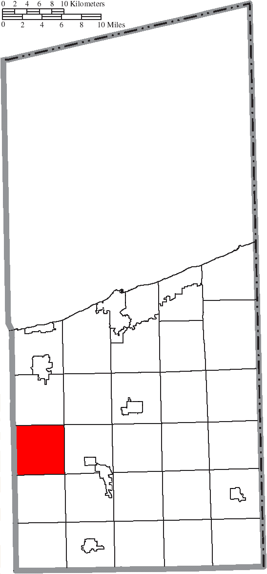 Map of the municipal and township boundaries of Ashtabula County, Ohio, United States, as of the 2000 census, with the location of Trumbull Township highlighted. Township borders are shown only in unincorporated areas in order to differentiate incorporated and unincorporated areas more clearly.